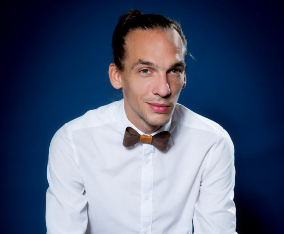 Resetar Daniel